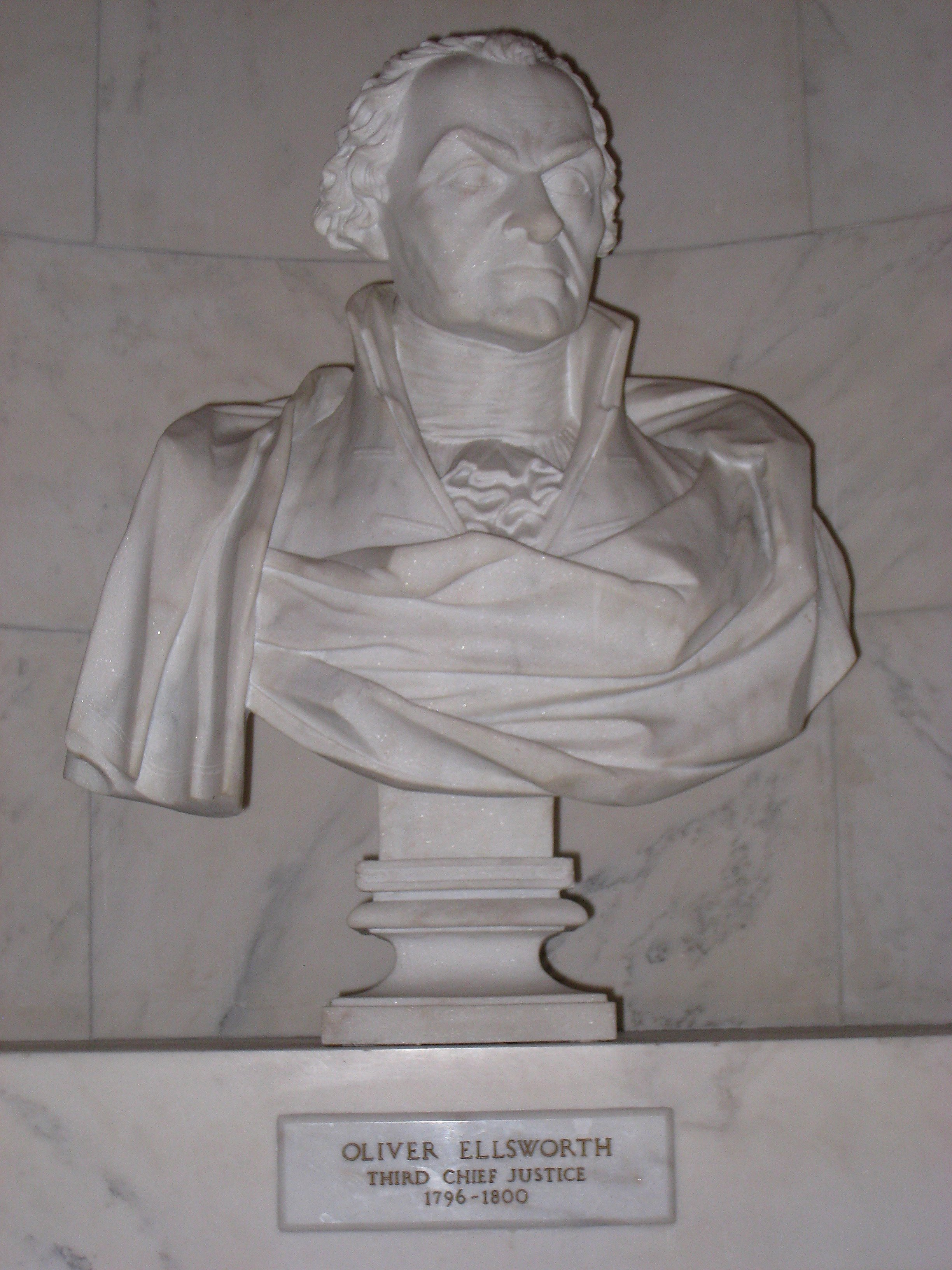 Oliver Ellsworth bust, US Supreme Court, Washington, DC, USA. Sculpture is either an original or copy of Hezekiah Augur (1791-1858) work, circa 1837.